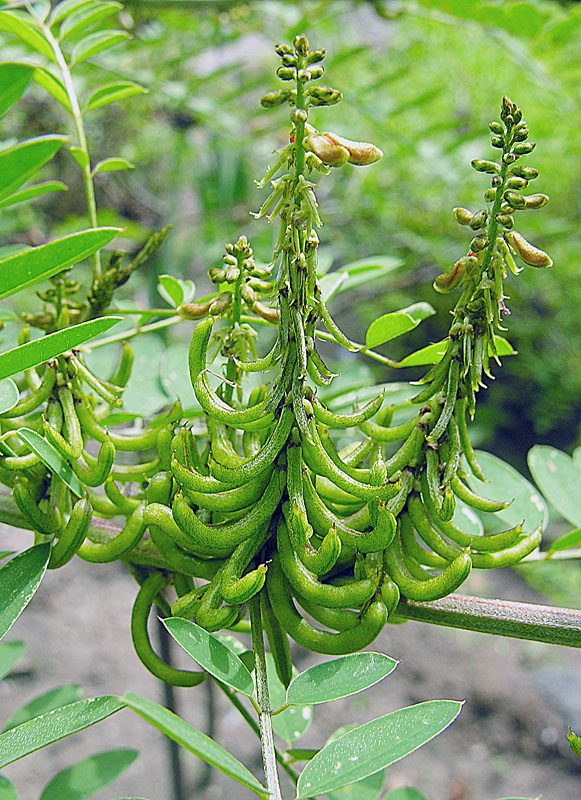 Planted across the tropics as a dye source. Known as Añil in Latin American. Jardin Etnobotanico, Cuernavaca.